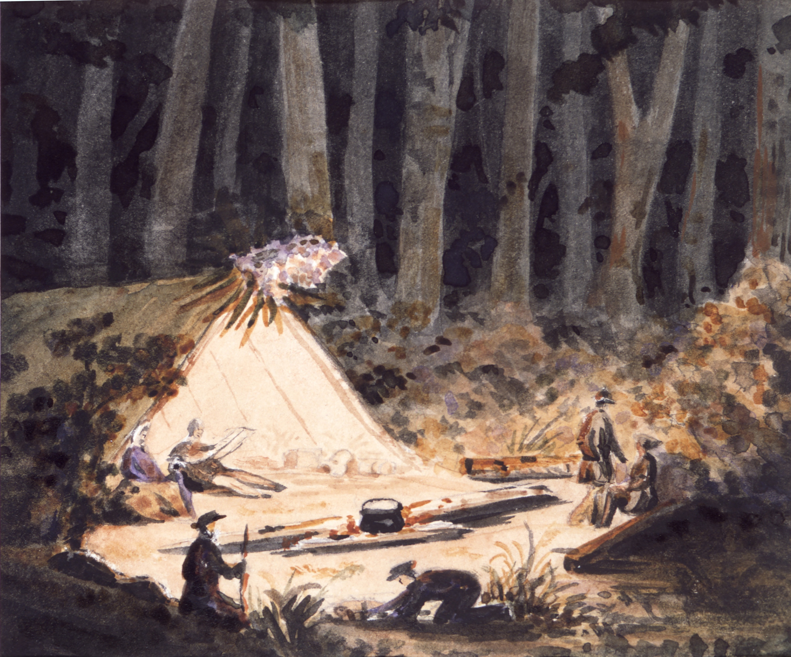 Shows a night-time camping scene, lit by a camp fire, with members of the six-strong camping party (a woman and five men) seated around the camp fire, some of them in the entrance to a tent at the left. The tent uses a flowering cabbage tree as a ridge-pole. Godley, John Robert, 1814-1861; Godley, Charlotte, 1821-1907; Torlesse, Charles Obins 1825-1866; Wakefield, Edward Jerningham, 1820-1879 (Subject); Brown, Charles Hunter, 1826-1898; Godley, John Arthur (Sir), 1847-1932